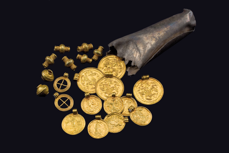 Bracteates and pearls from Germanic Iron Age from "Sorte Muld" on Bornholm in Denmark.